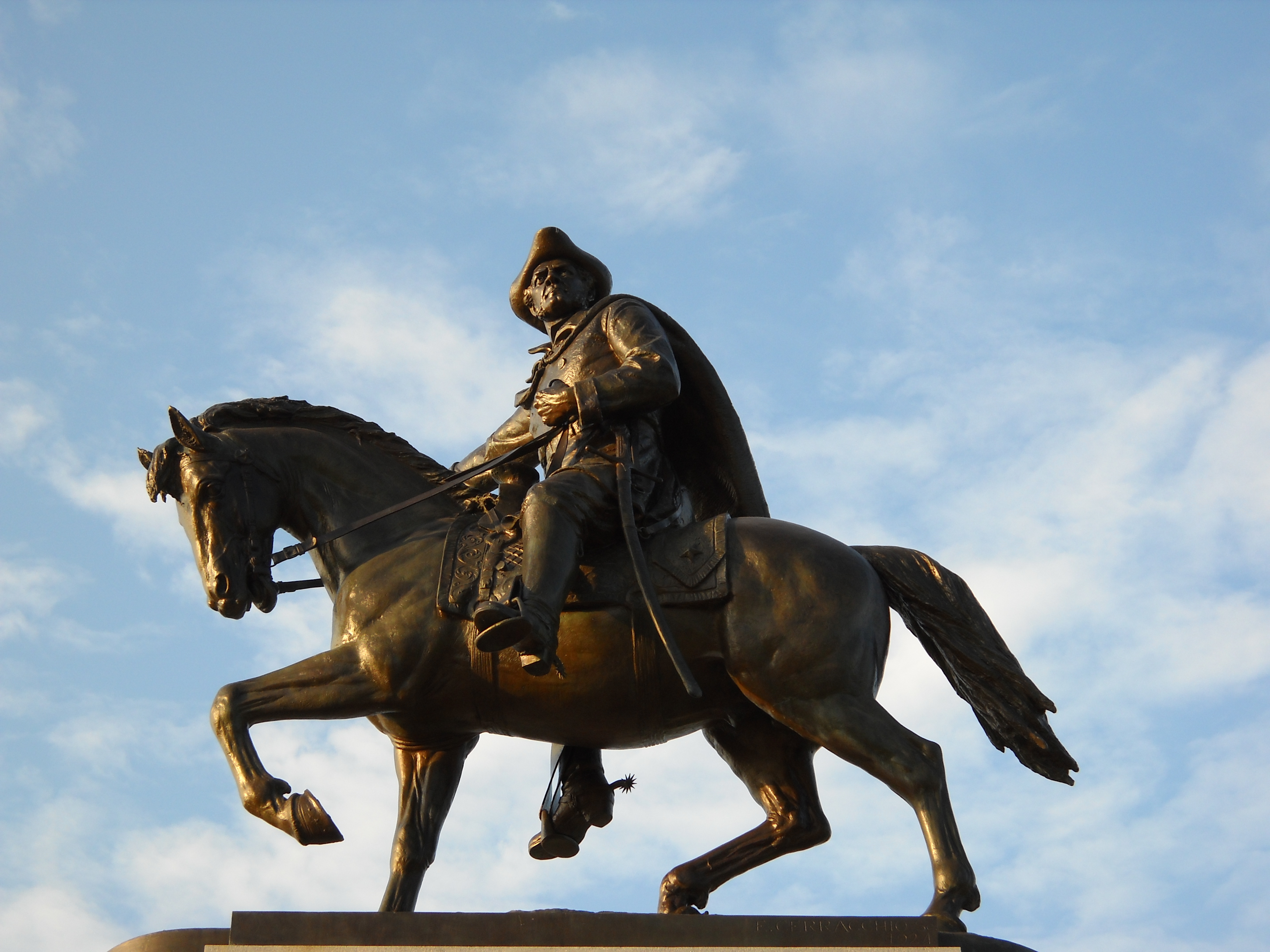 Sam Houston Monument in Hermann Park, Houston